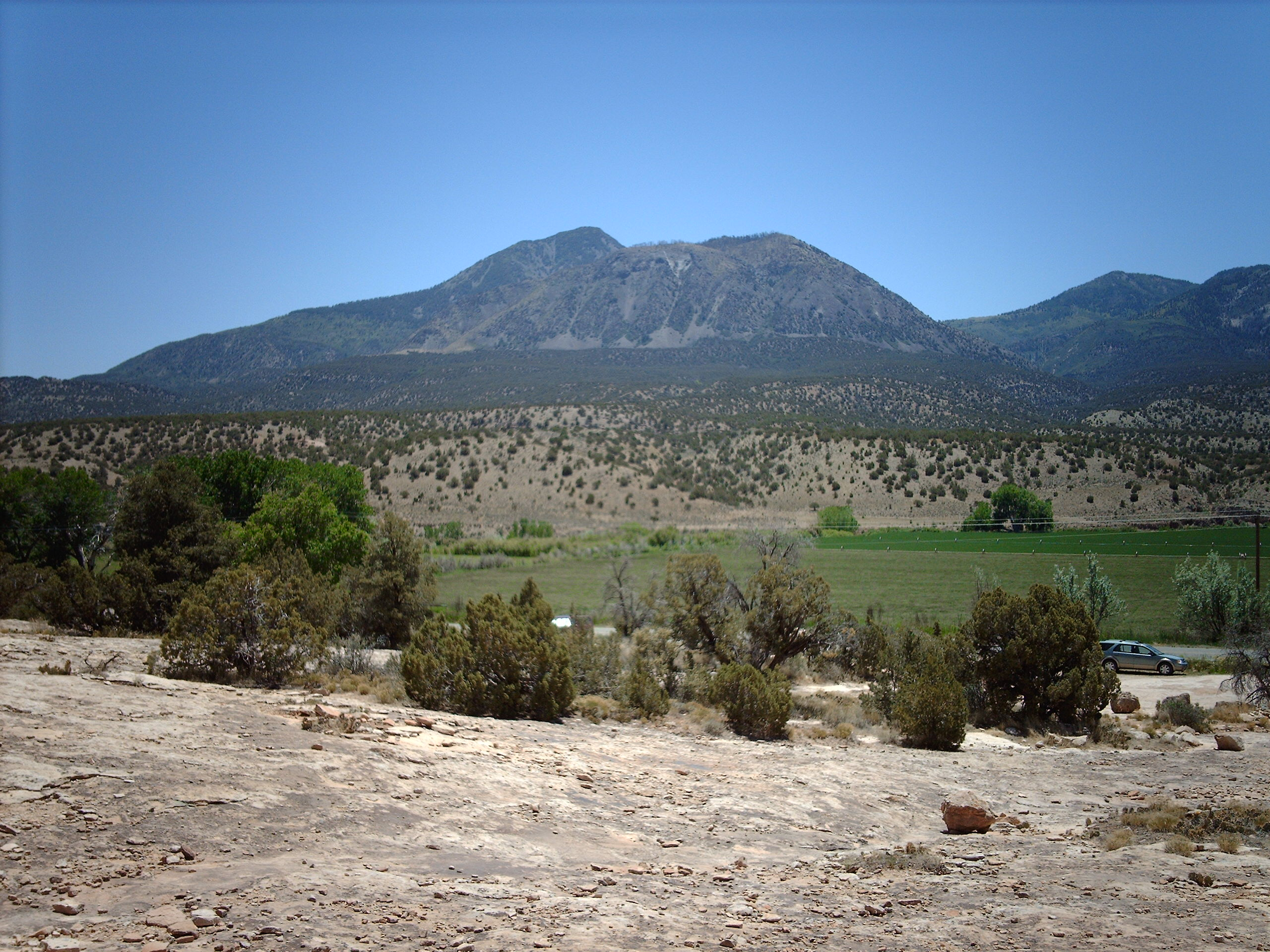 Ute Mountain, Colorado. Taken by me (Nationalparks) from Canyon of the Ancients (looking at the mountain from the north).